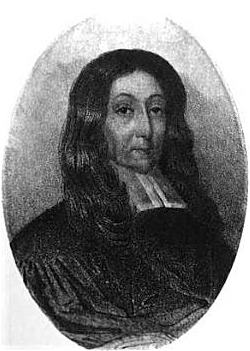 Portrait of John Wilson